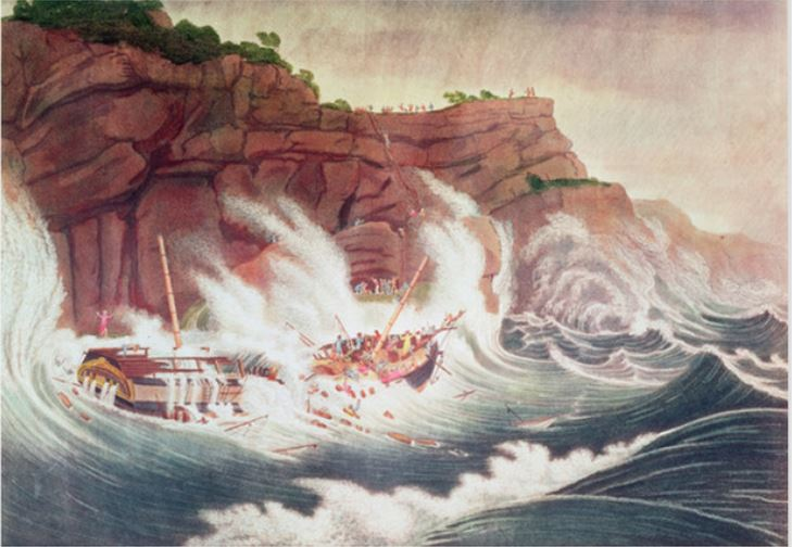 Loss of the Packet Ship Albion, engraved by C. Tiebout (Cornelius Tiebout (1773-1832)) from Thomas Birch (1779-1851). Albion off course and aground, on the coast of Ireland off Garretstown near Old Point of Kinsale on April 22 1822. Charles Lefebvre-Desnouettes was one of the fatalities.